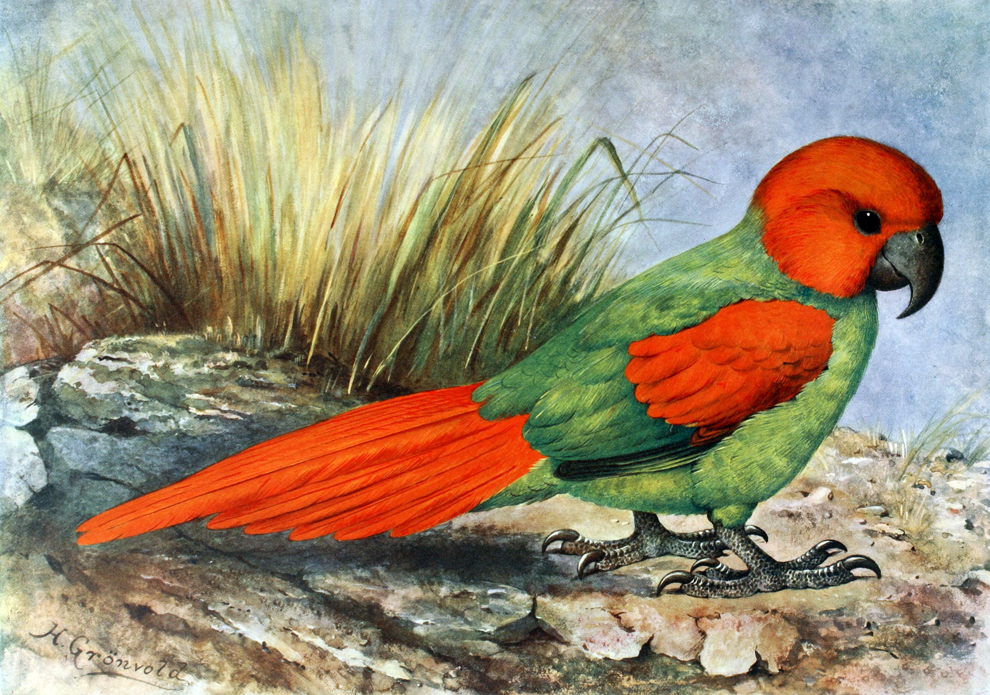 The Réunion Red-and-green Parakeet or Réunion Parrot (Necropsittacus borbonicus) is a hypothetical extinct species of parrot based on descriptions of birds from the Mascarene island of Réunion. The image is entirely conjectural and shows a bird with the large-headed, massive-billed shape of the Rodrigues Parrot combined with the color pattern described by Dubois.